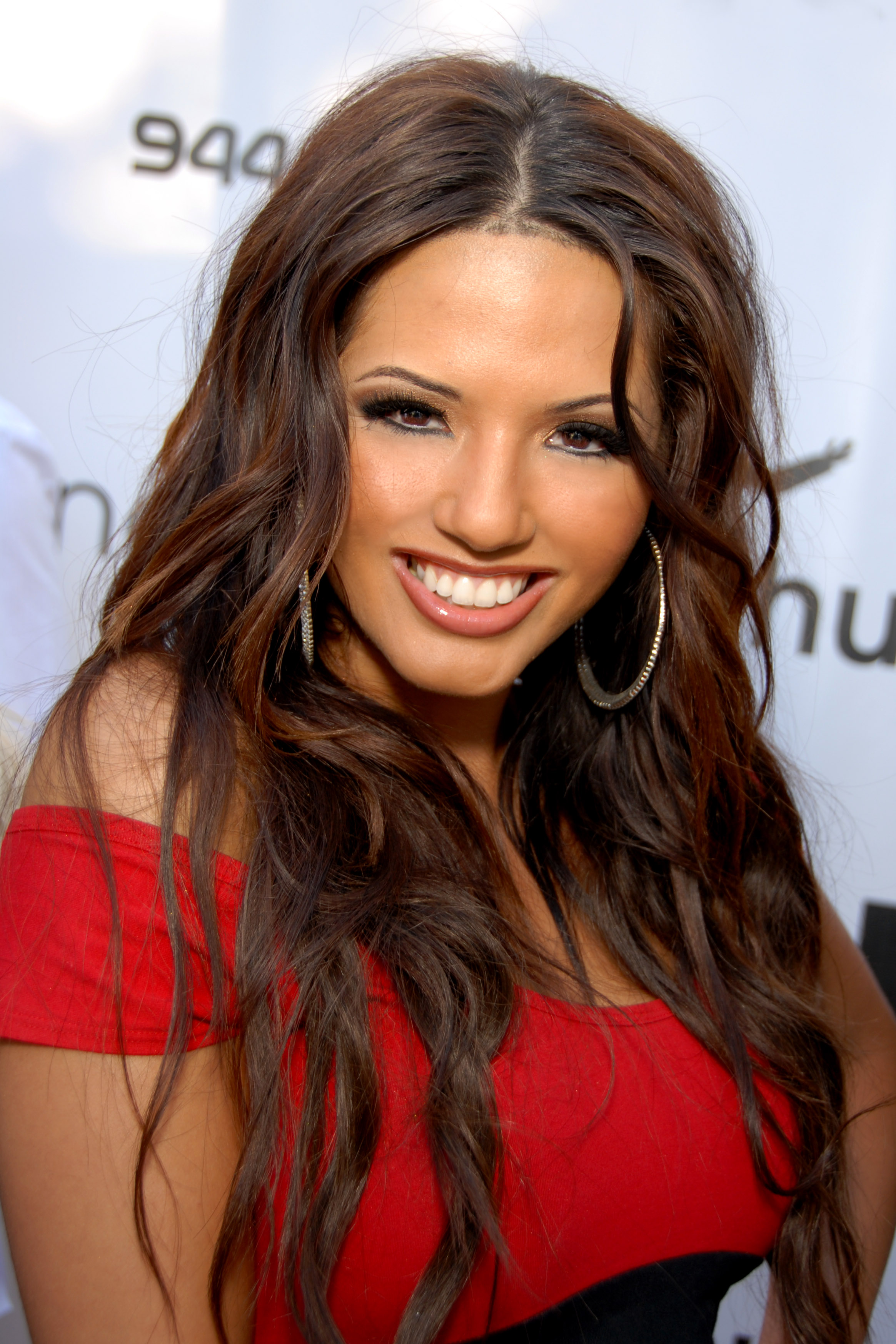 attending Super Bowl XLIII at the Playboy Mansion, Los Angeles, CA on 02-01-09 - Photo by Glenn Francis of